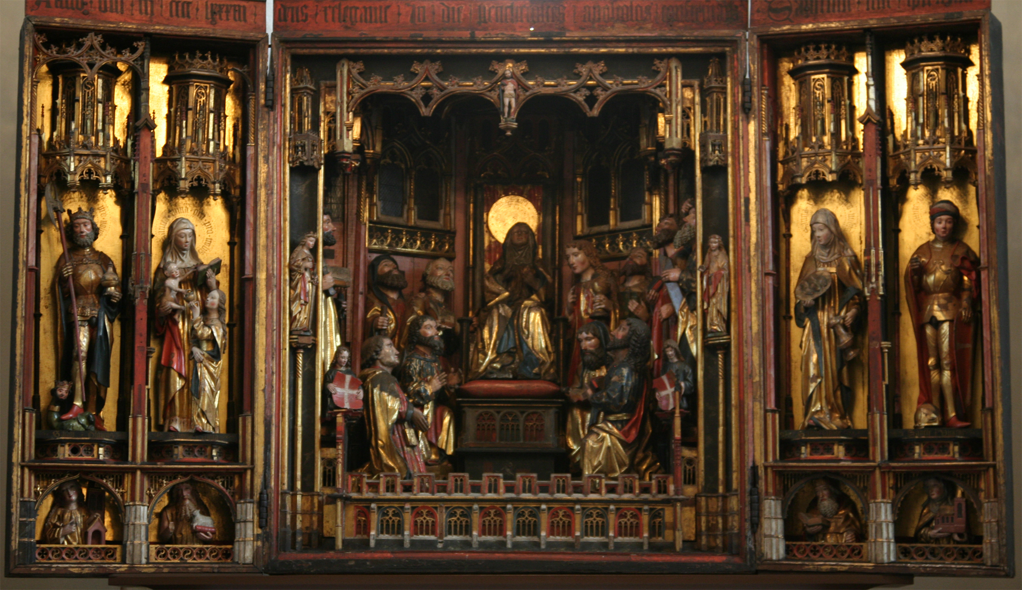 Photo of the High Altar in the Church of the Holy Ghost in Tallinn Estonia